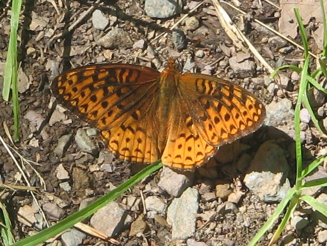 Woodland butterfly near the Lake Leigh dam in Ricketts Glen State Park, Fairmount Township, Luzerne County, Pennsylvania, USA. This appears to either be a Aphrodite Fritillary or a Great Spangled Fritillary.